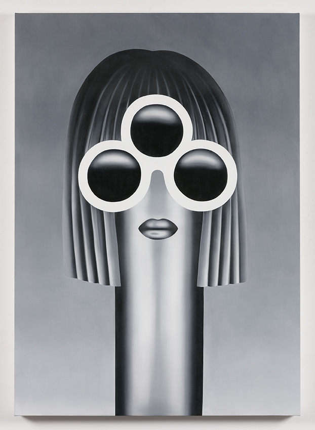 oil on linen